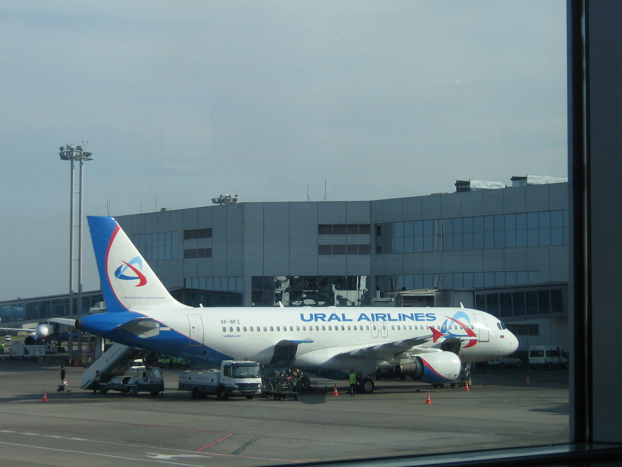 Ural Airlines A320 at Domodedovo International Airport, Moscow, June 2010.